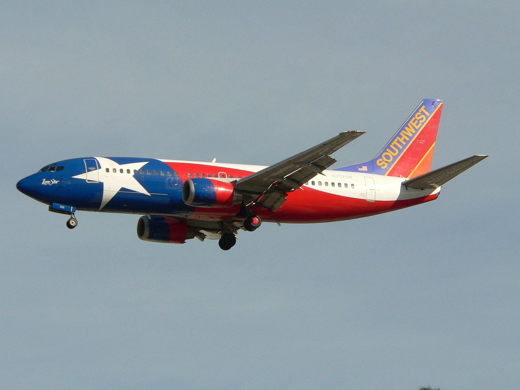 Title: 737-3H4 Description: Southwest Airlines Boeing 737 Lonestar One (N352SW) at LAS in november 2005. Original source: - image description page